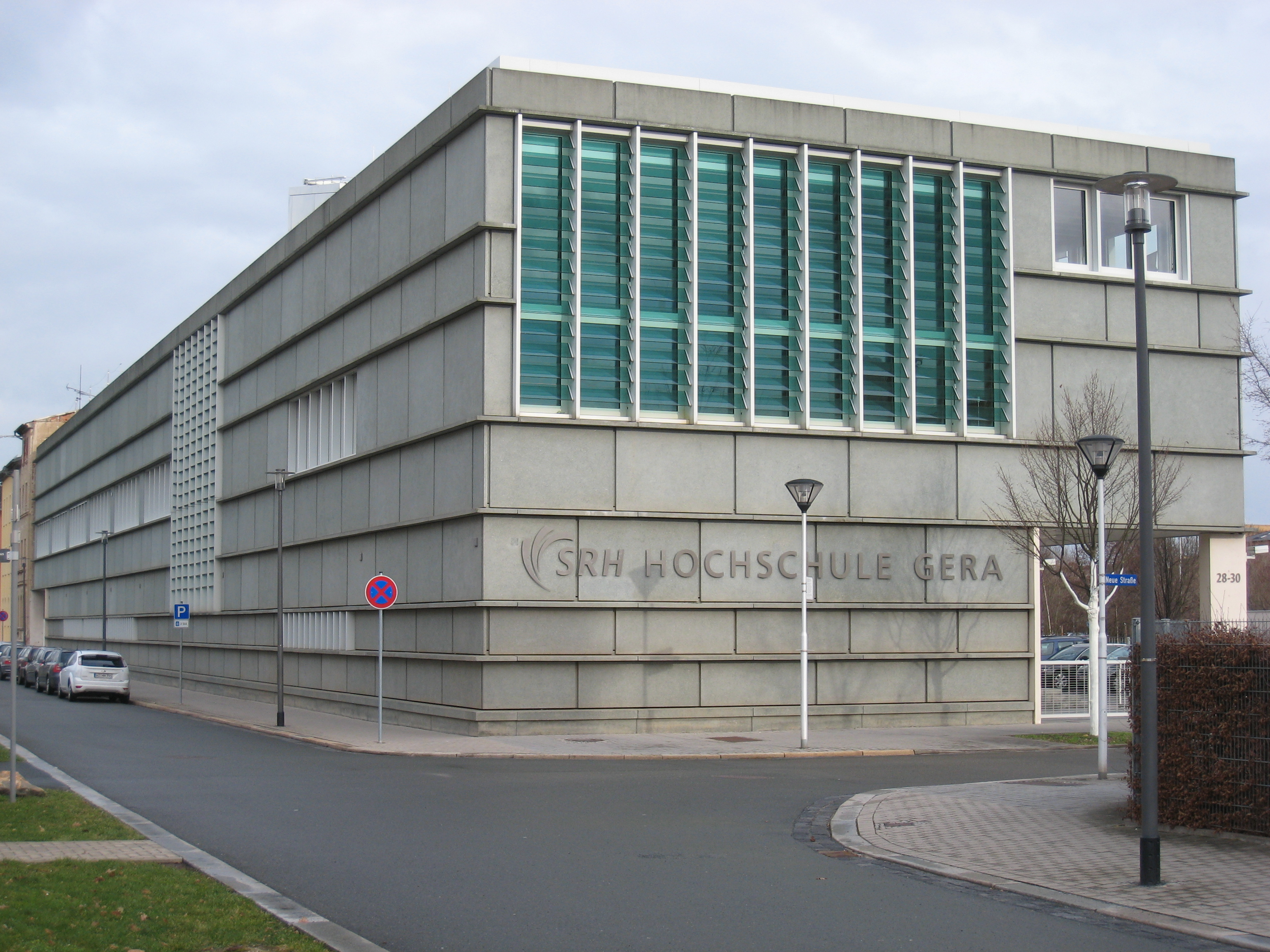 University for Health Care, Gera, Neue Straße 28-30